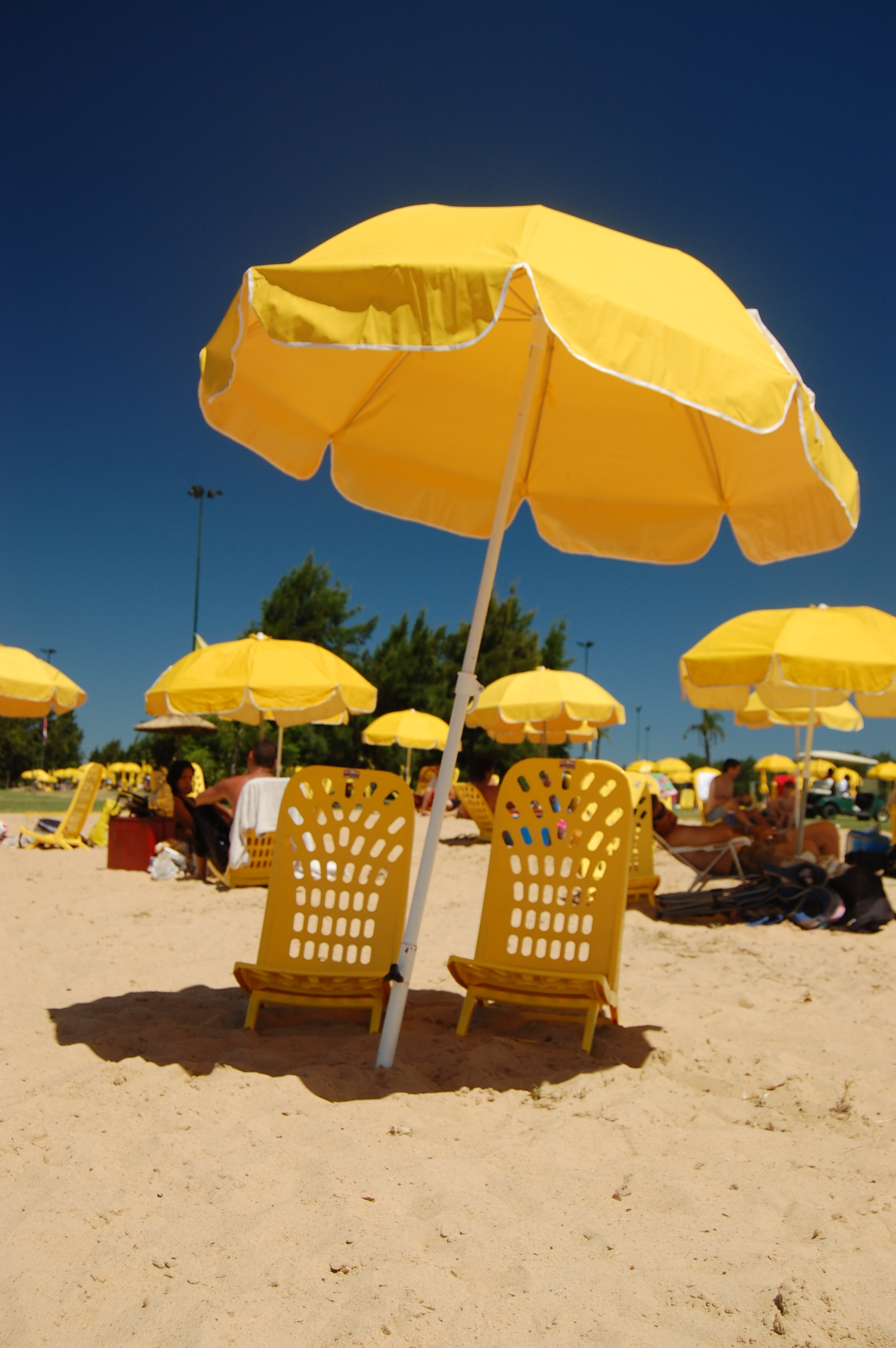 Children's Park Buenos Aires Playa